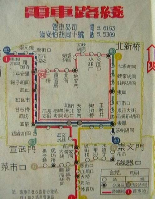 Streetcar network of Beijing, circa 1950.